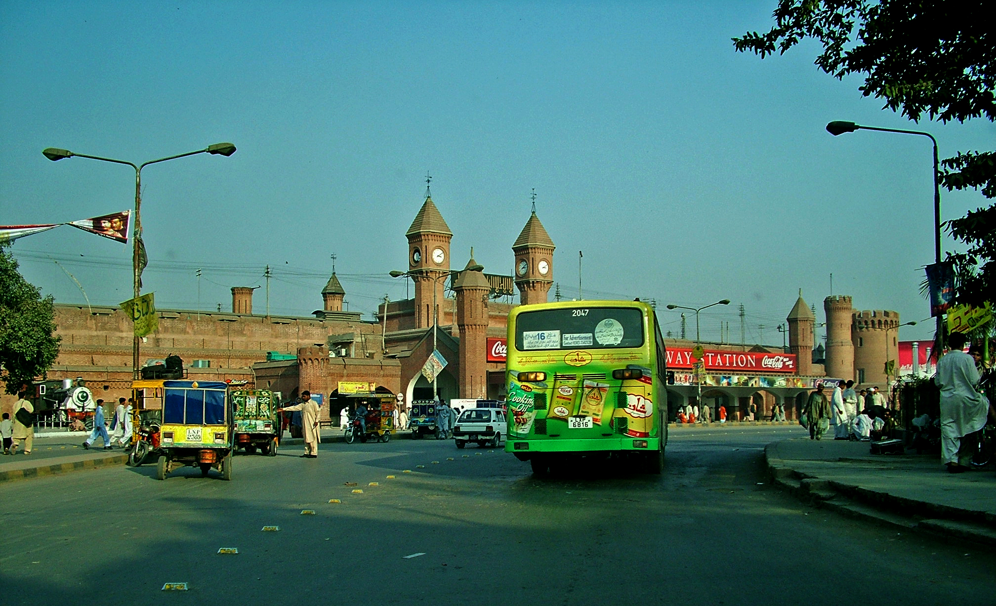 Lahore Railway Station